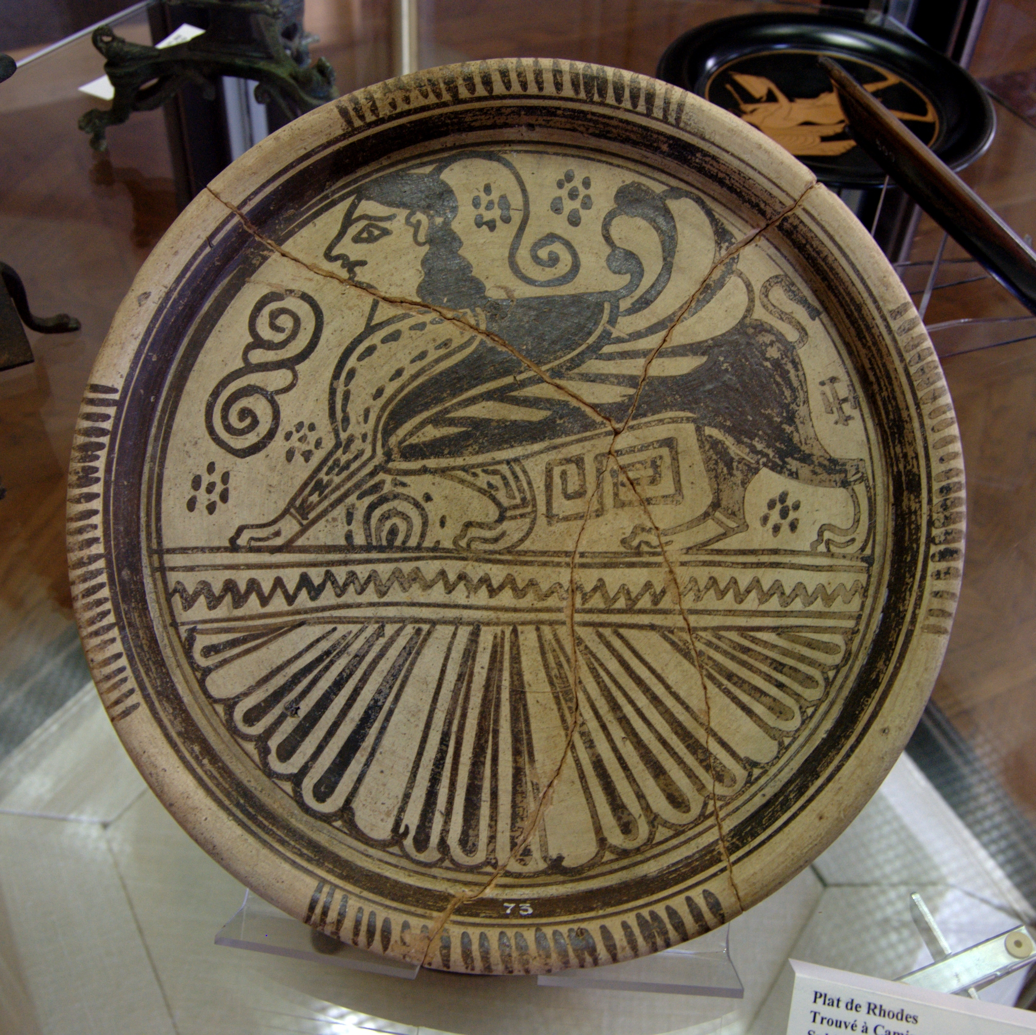 Sphinx. Plate from Rhodes, end 7th century BC. Found in Kameiros, 1864.